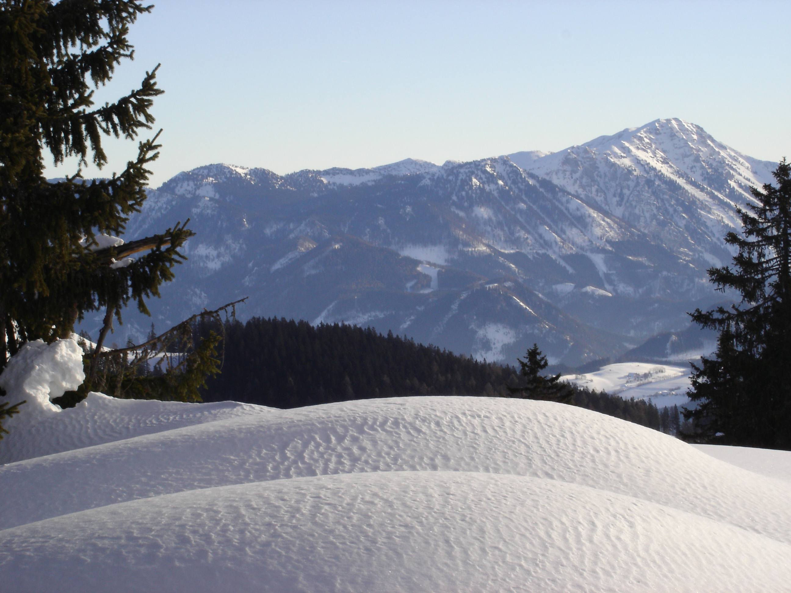 The Dürrenstein in the Ybbstaler Alpen seen from Königsberg/Durnhöhe